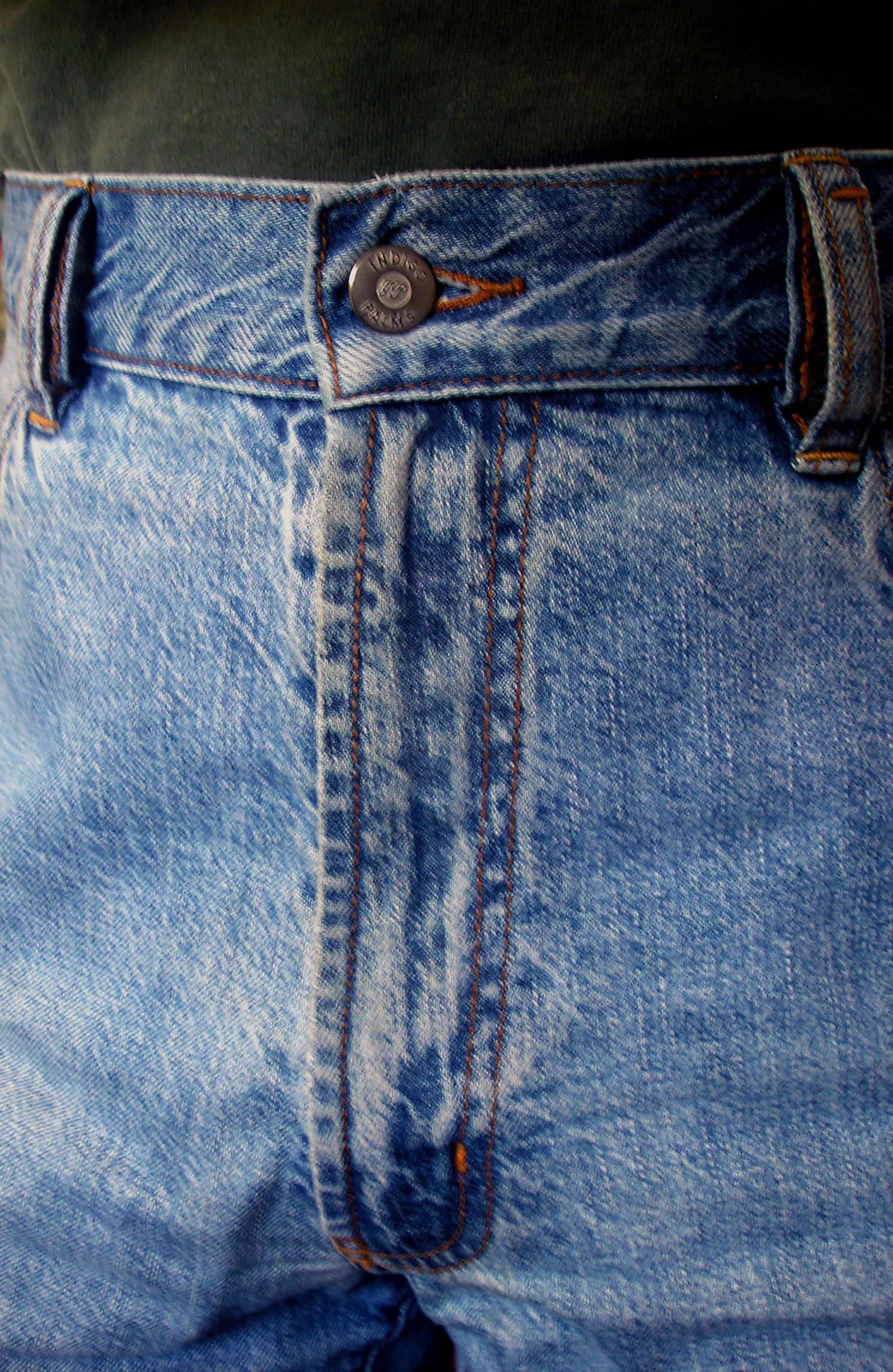 The closed/zipped fly of my jeans Summary The closed/zipped fly of my jeans